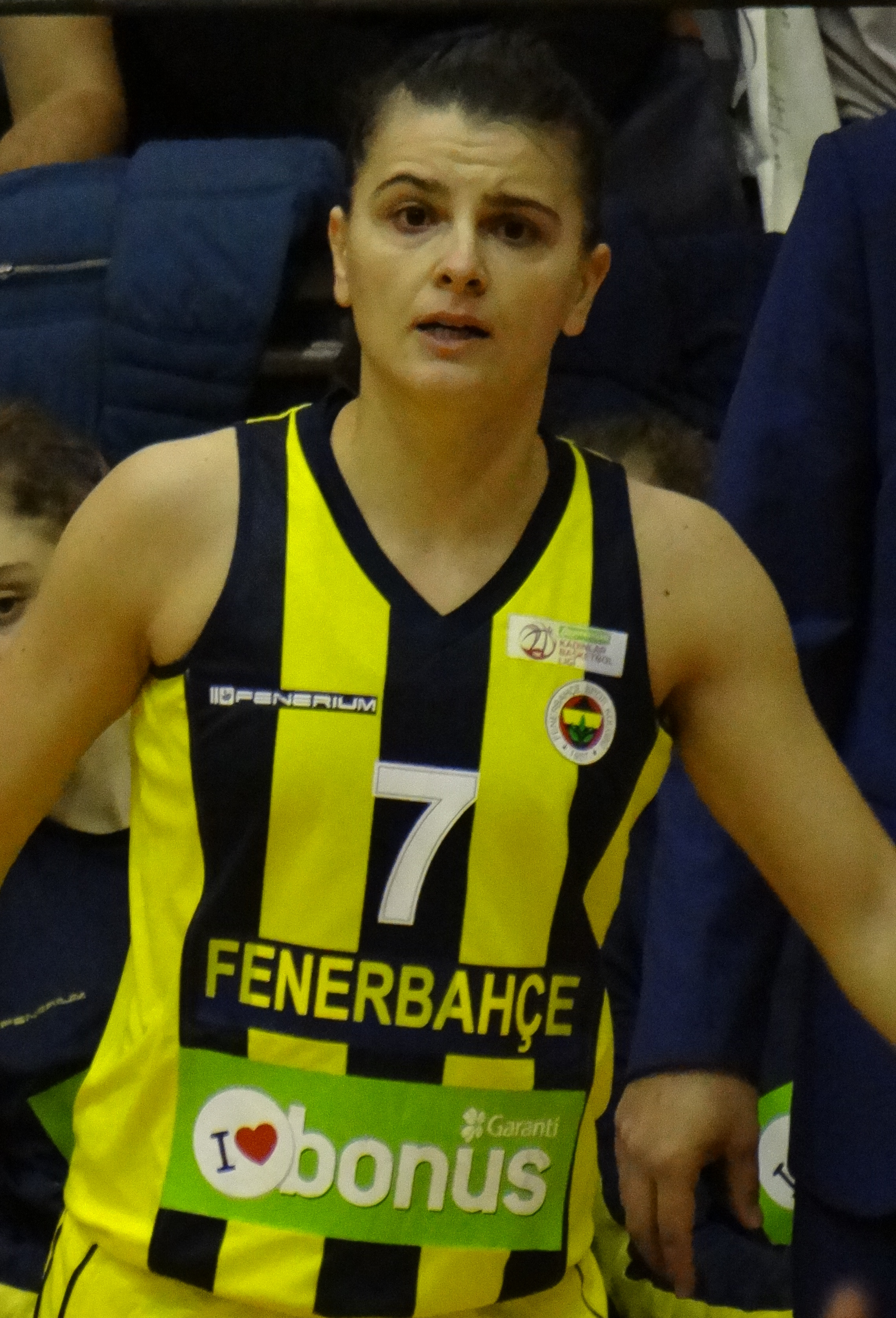 Birsel Vardarlı Fenerbahçe Women's Basketball vs Mersin Büyükşehir Belediyesi (women's basketball) TWBL 20180121